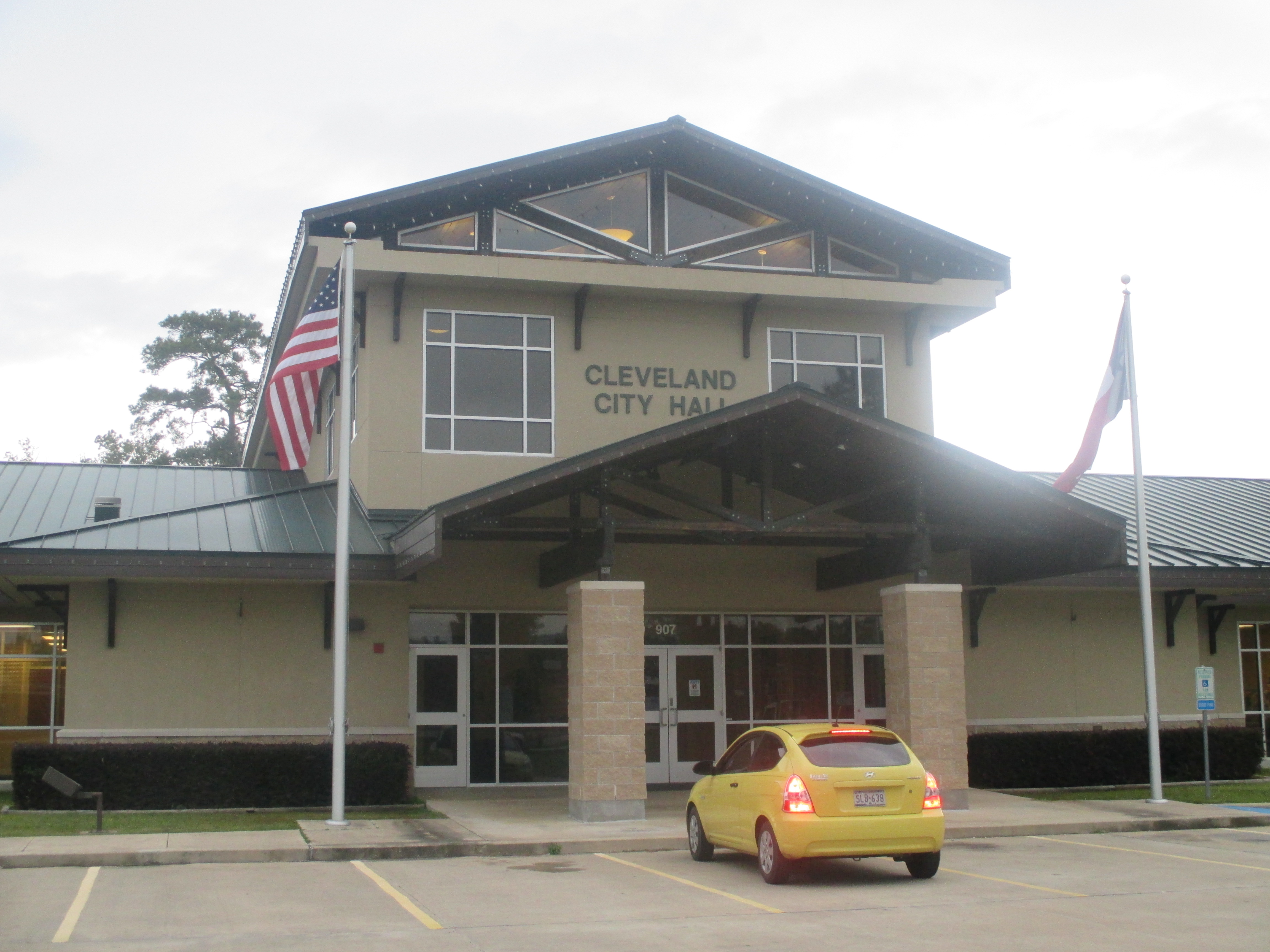 I took photo of Cleveland, TX, City Hall with Canon camera.